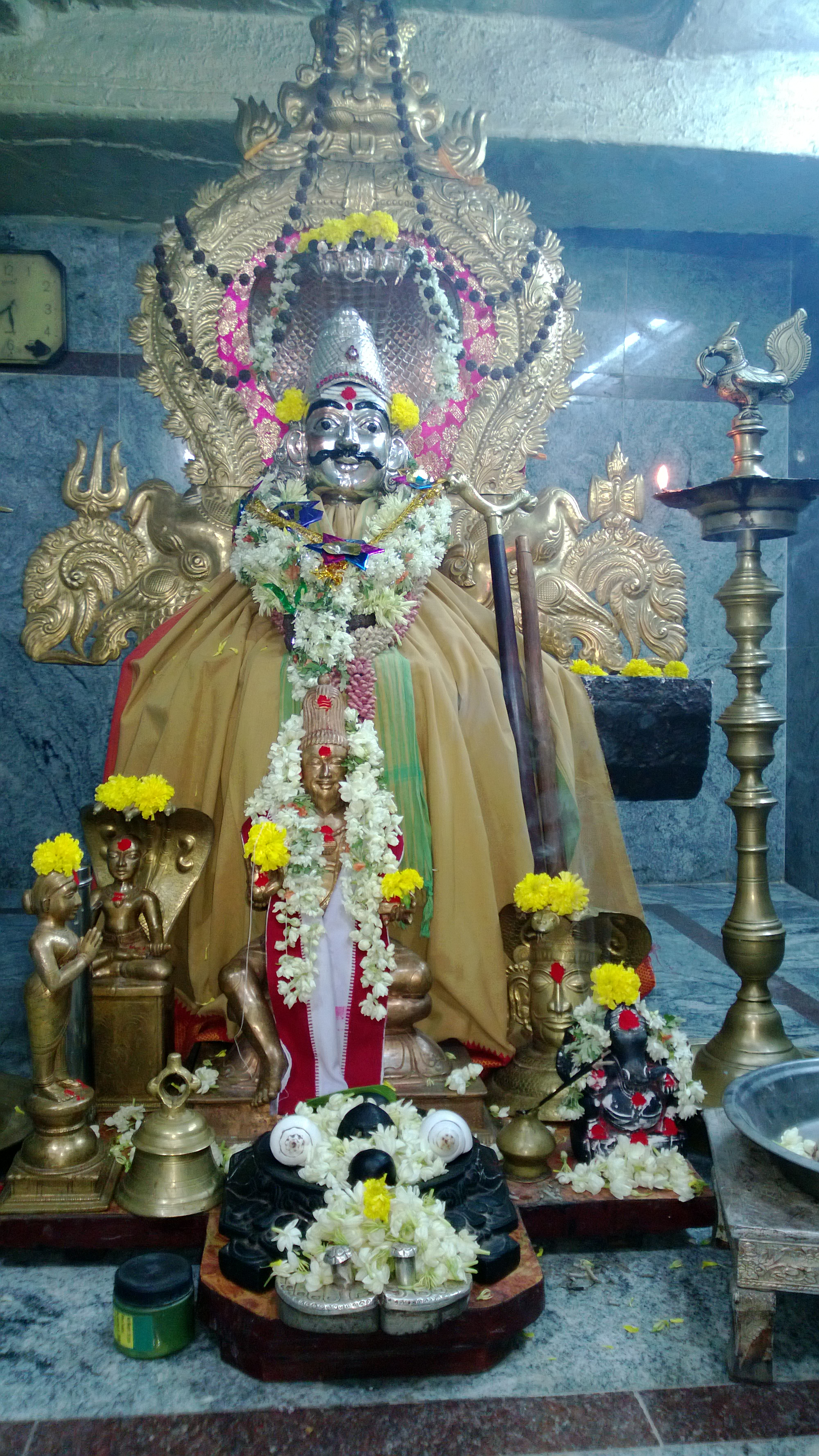 Sree veerappayya Garbhagudi at Veerabrahmendra swamy Nelamatham - Banaganapalle